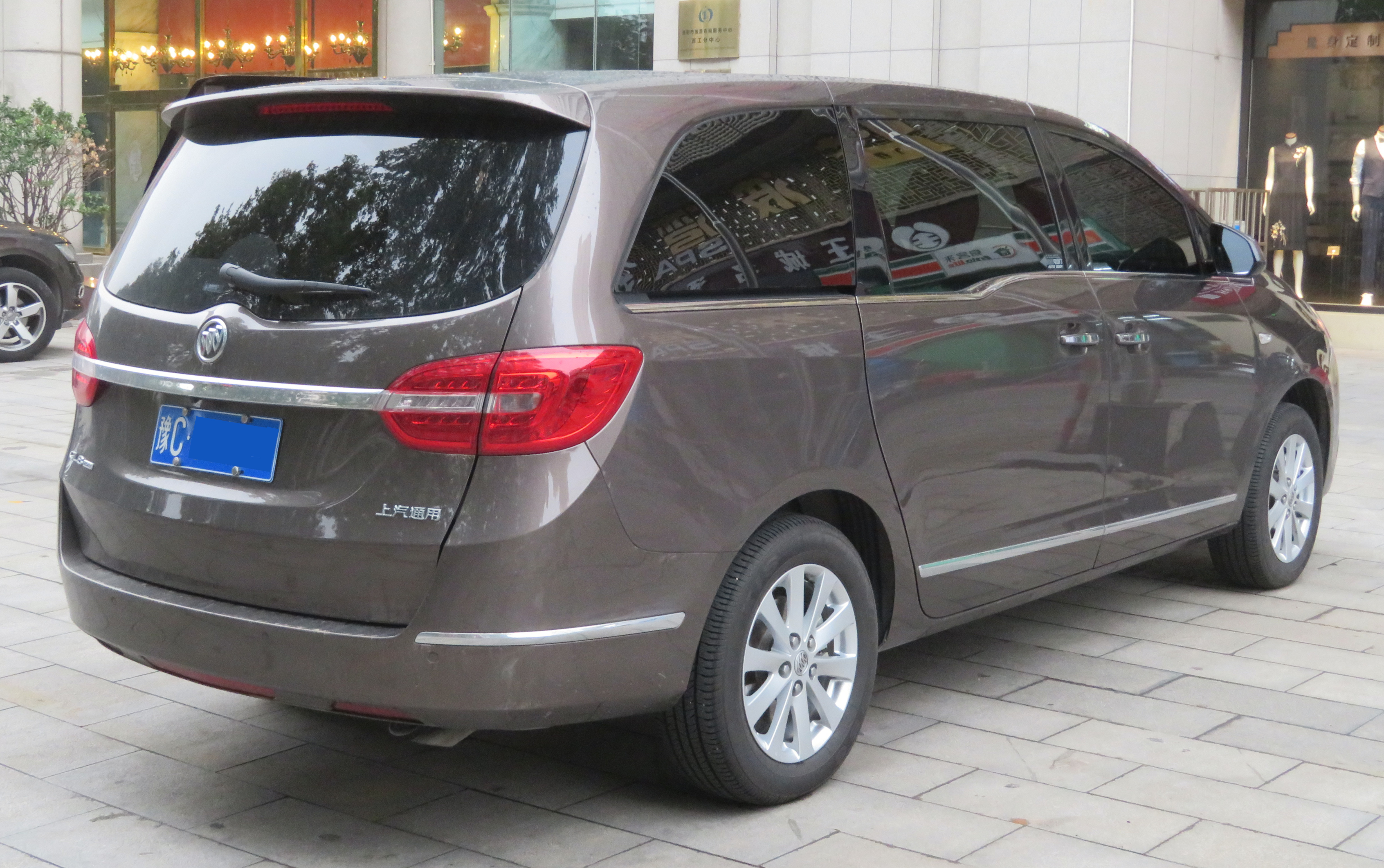 A 2015 Shanghai-GM Buick GL8 photographed in Xigong District, Luoyang, Henan province, China